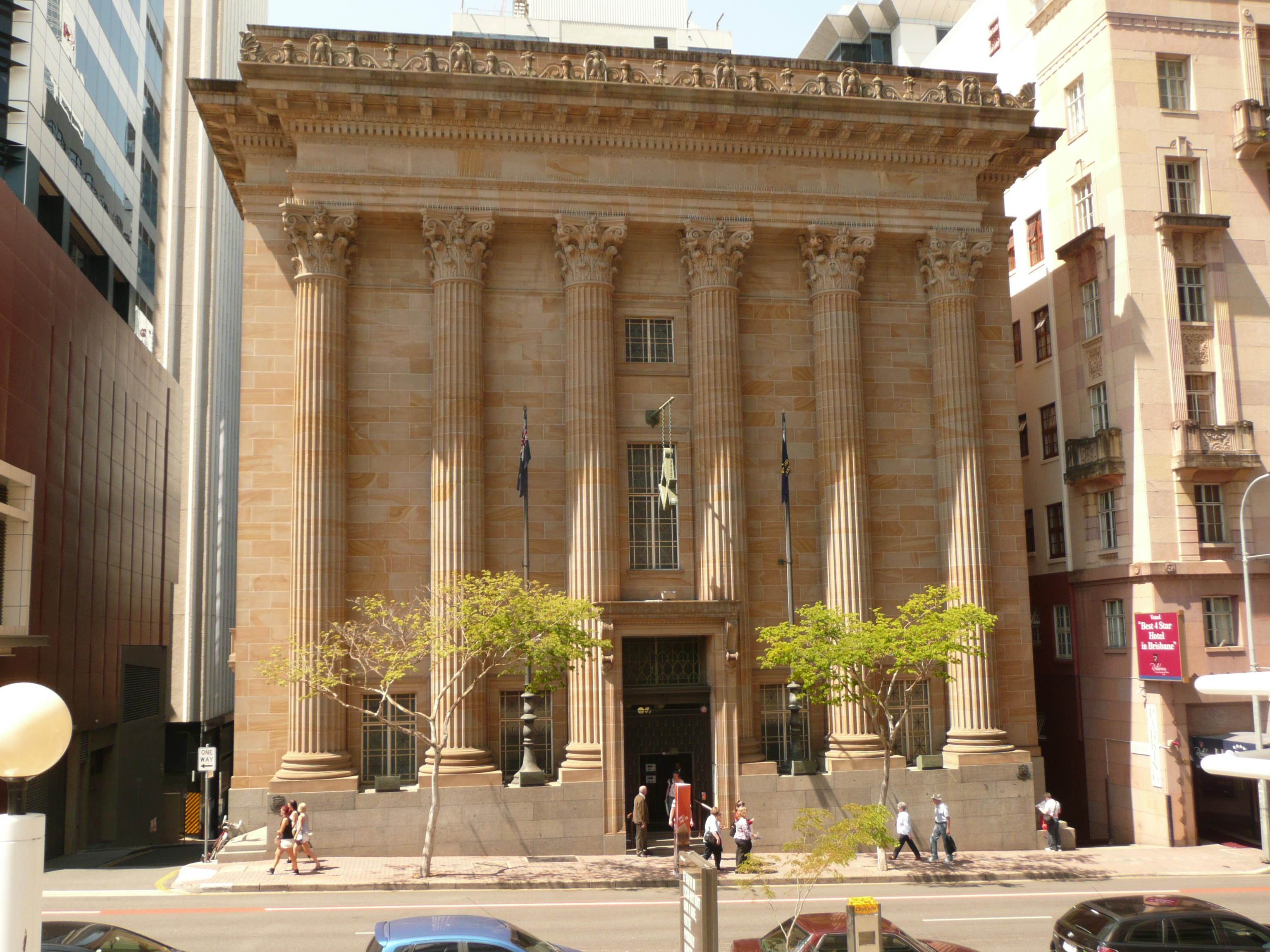 View of Masonic Memorial Temple, Brisbane